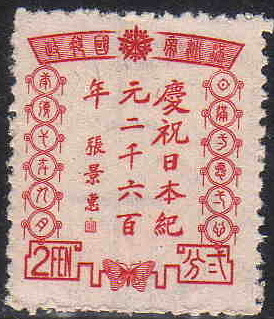 2600th anniv of Japanese Empire 2Fen stamp by Manchukuo